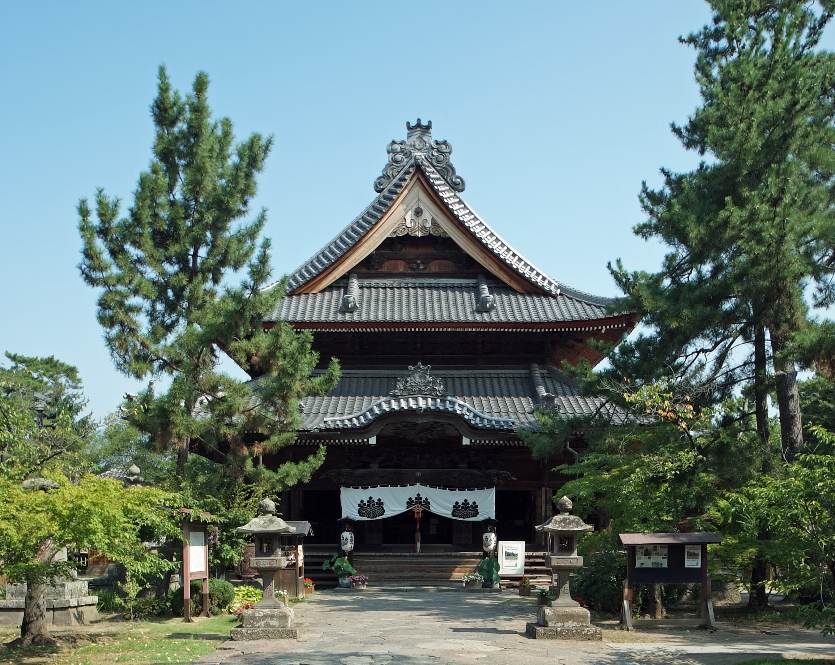 Shinano Kokubun-ji Hondo, Ueda Nagano Japan, built in End of Edo era.